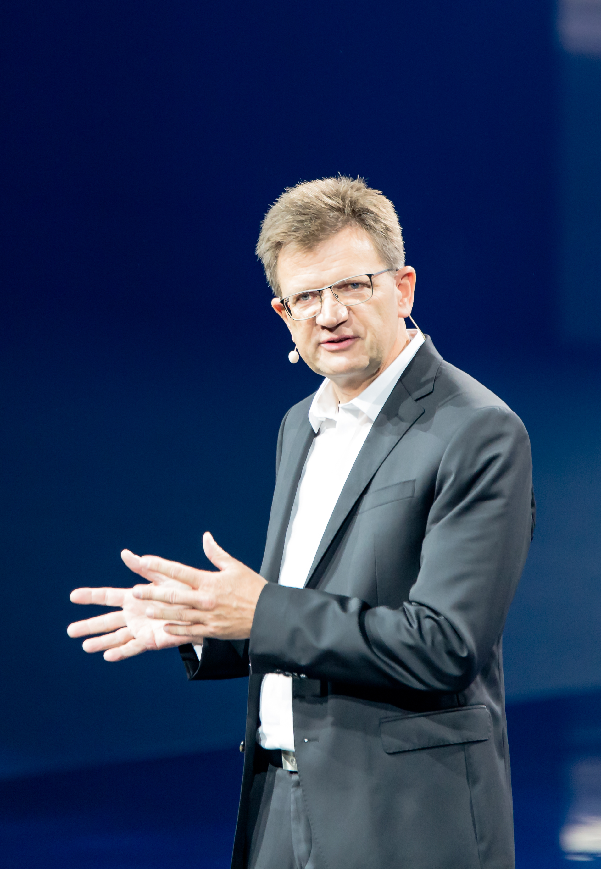 Klaus Fröhlich